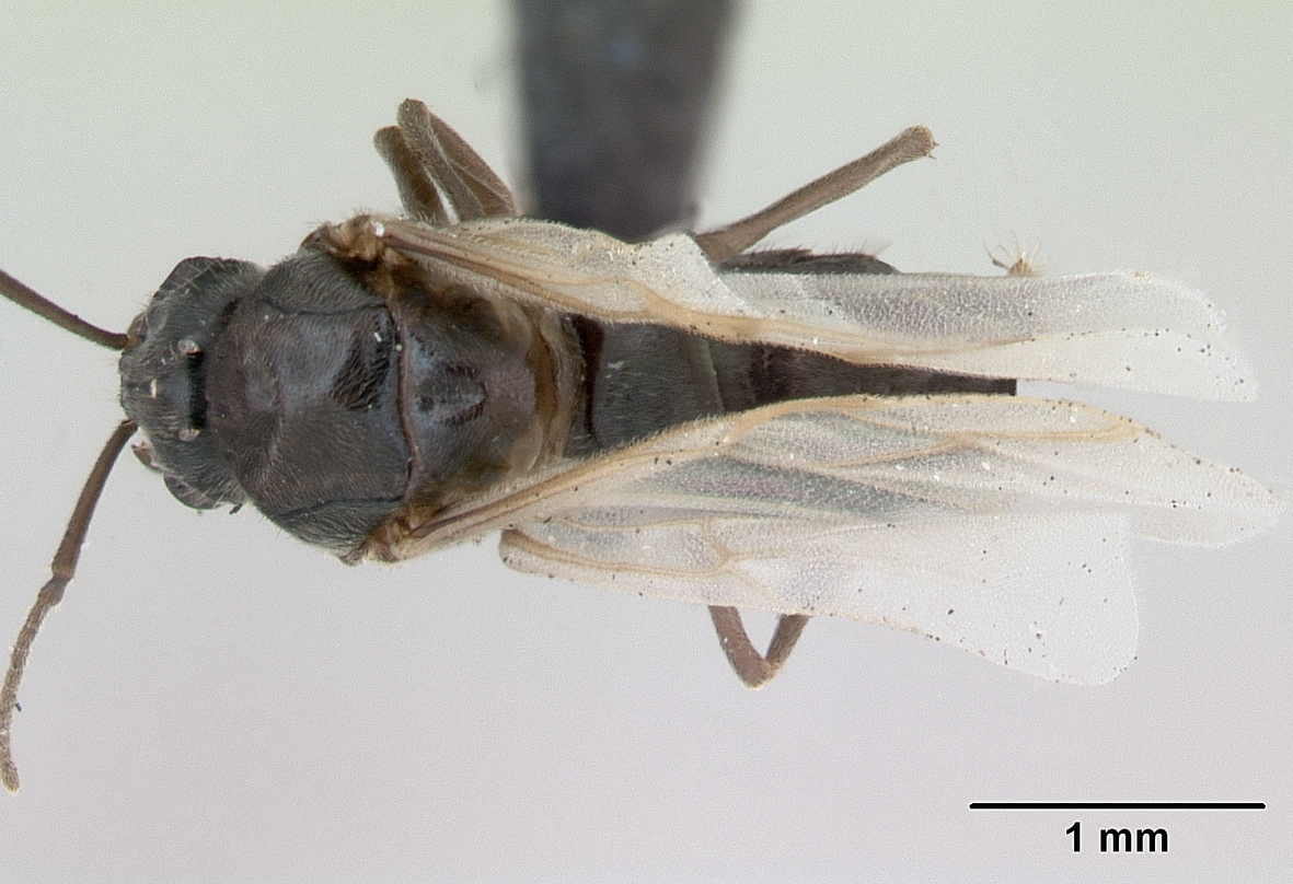 Dorsal view of ant Lasius alienus specimen casent0172725.